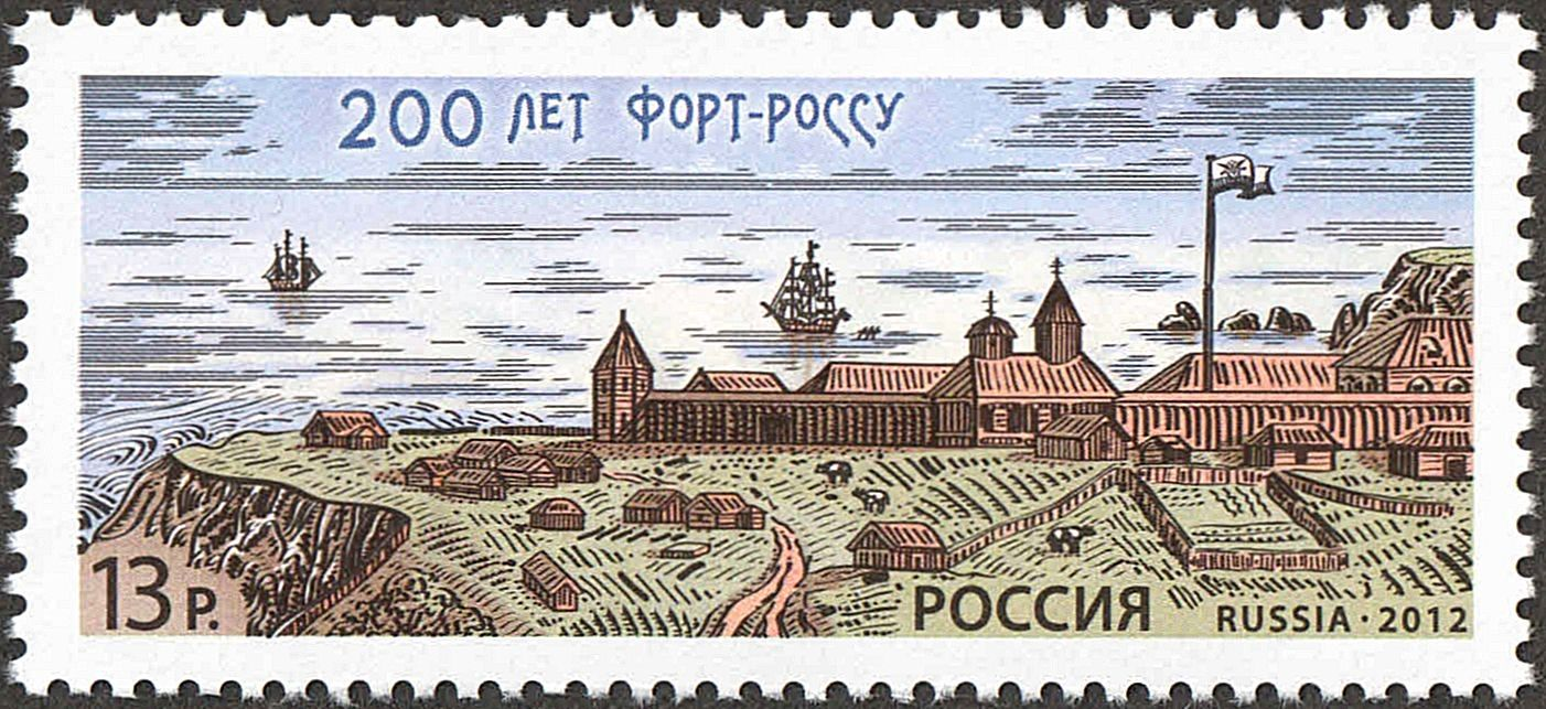 200th anniversary of Fort Ross. The view of Fort Ross in the beginning of 19th century. The stamp of Russia, 13.00 rubles, 11 September 2012, PTC Marka Catalogue No 1633, Michel No 1865. Coated paper. Offset printing, multicoloured. Perforation: comb 12:12½. Size of the stamp: 58×26 mm. Print run: 423,000.